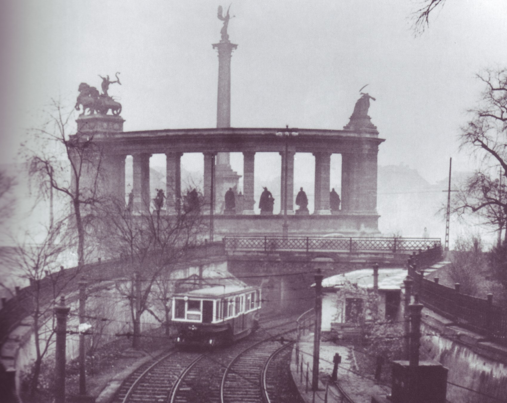 Millennium Underground at Heroes square See other pictures: metros.hu